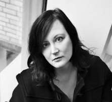 Annina Rabe